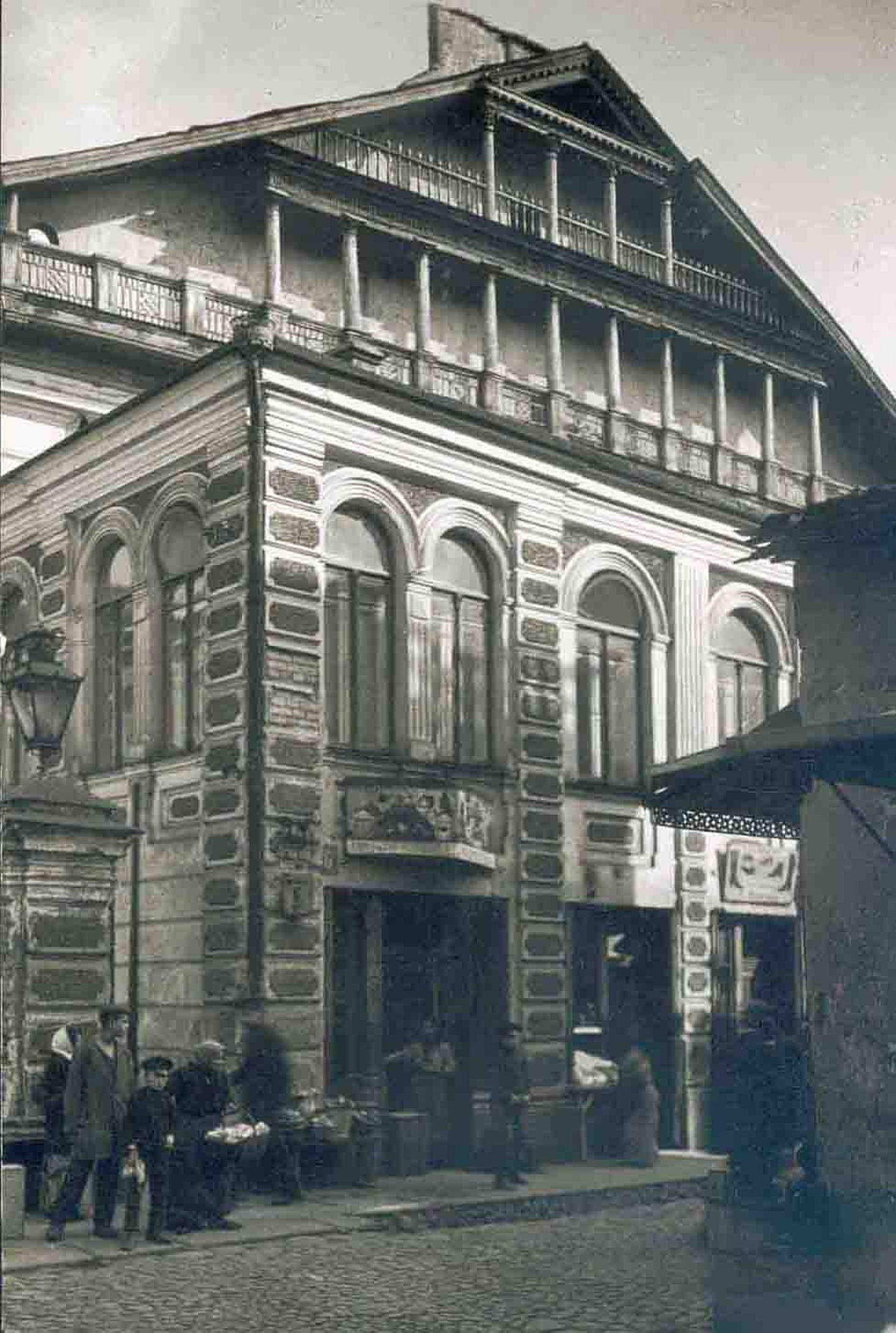 The Great Synagogue of Vilna (Vilnius) in 1934. The synagogue was heavily damaged by the Nazis and destroyed by the Sovietics.